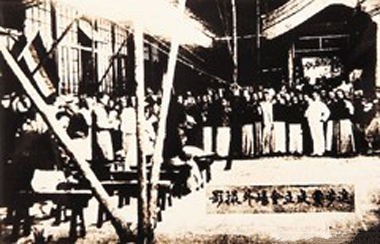 First congress of the Progressive Party (China) taken on May 29, 1913.